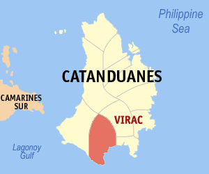 Map of Catanduanes showing the location of Virac